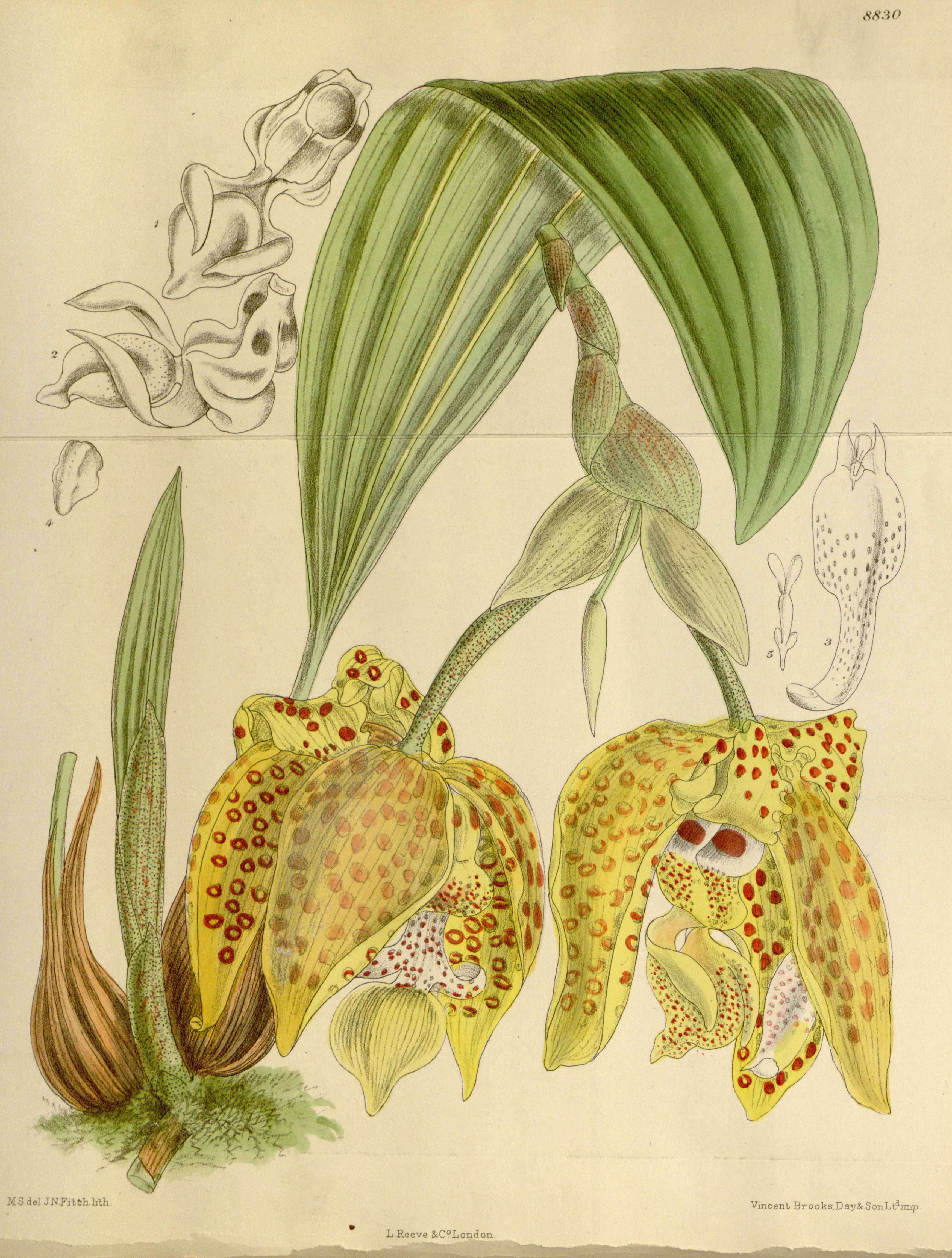 Illustration of Stanhopea costaricensis